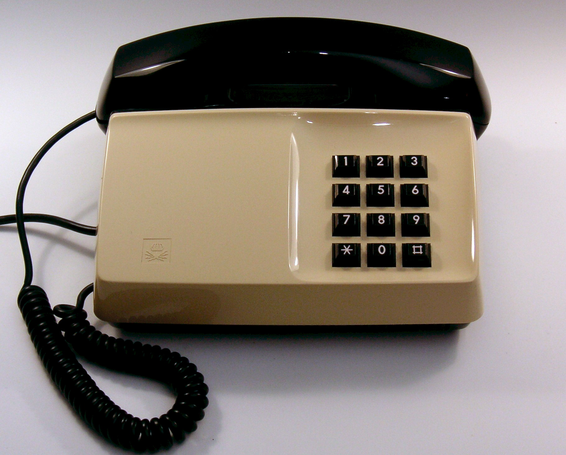 Ericsson Diavox telephone, made for Televerket (national telecom), Sweden.